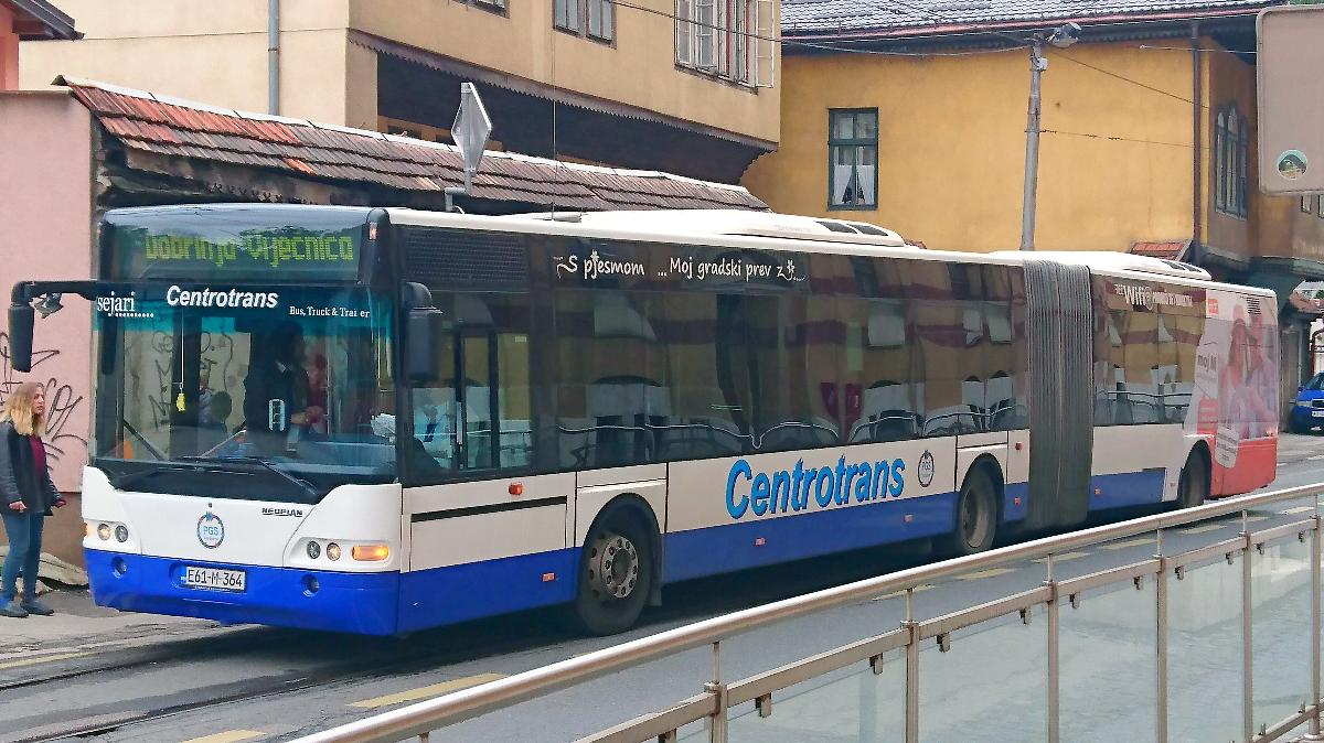 Neoplan on the line 31e